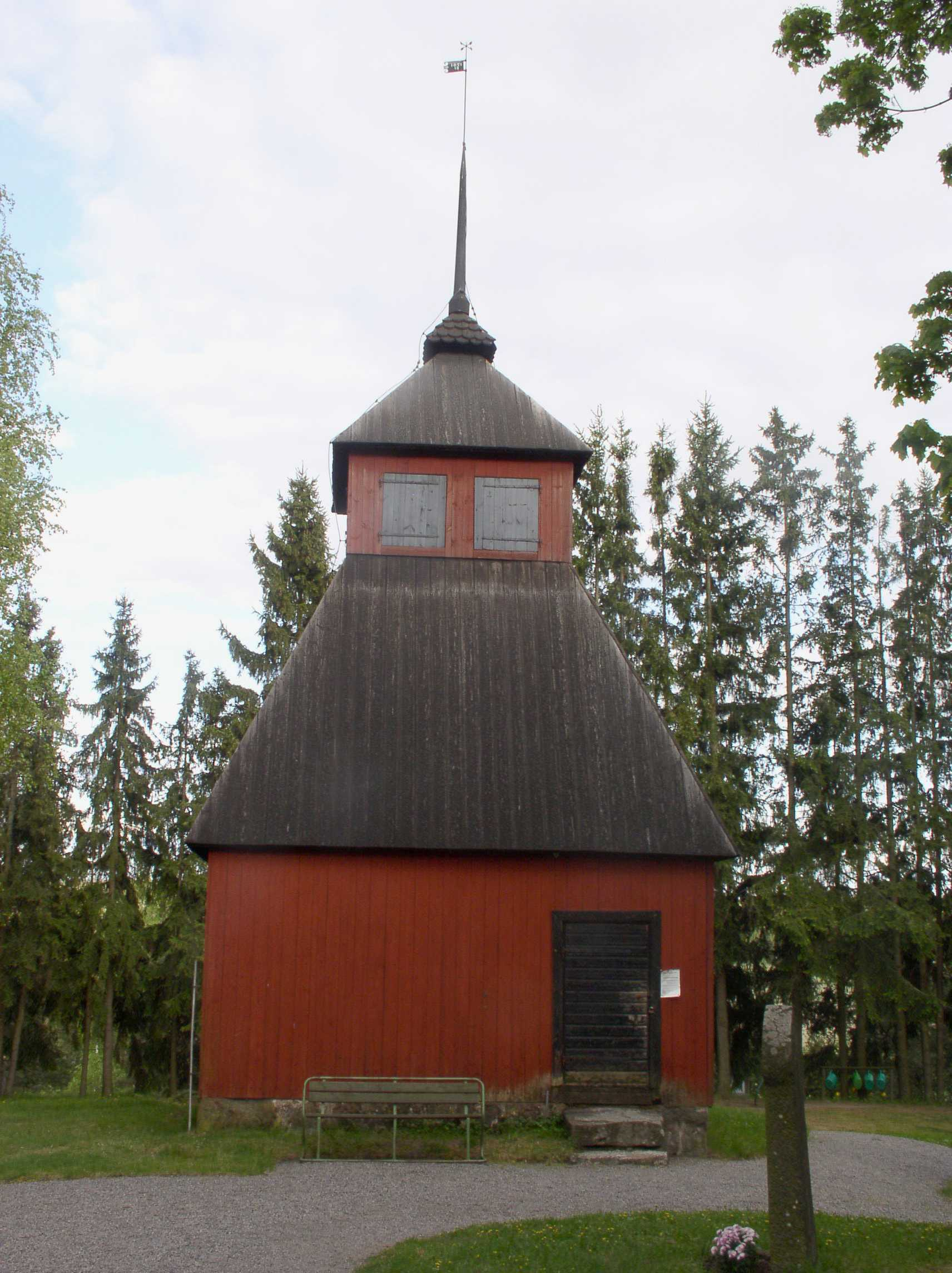 Bell tower of the Rusko church in Rusko, Finland.